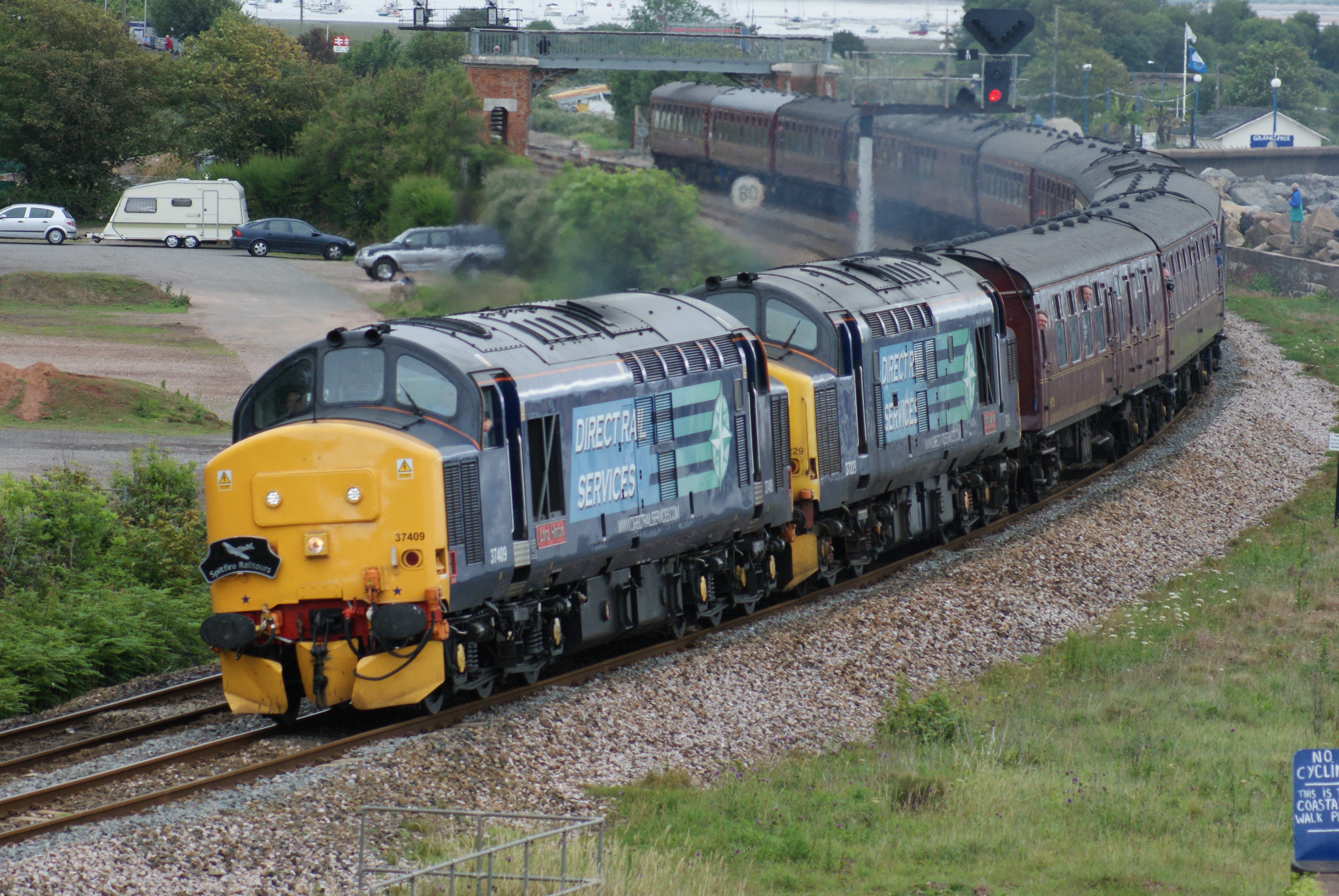 37409 and 37229 round the bend at Red Rock en route to Penzance